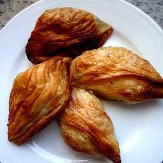 Pastizzi, two kinds: Ricotta and Peas